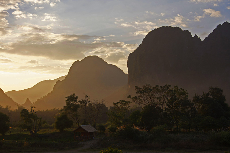 Limestone cliffs at sunset in Vang Vieng, Laos